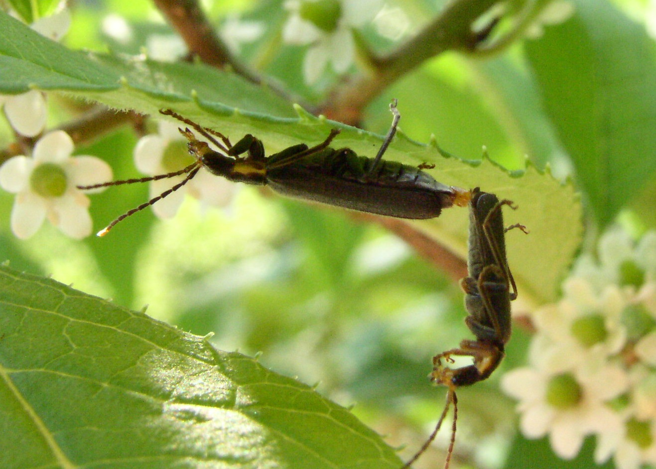 Soldier beetles, Podabrus rugosulus, mating. Churchville Nature Center, Bucks County, Pennsylvania, USA.